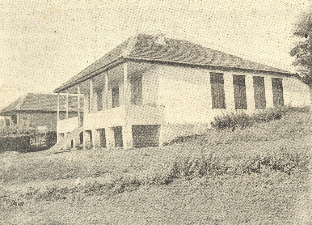 School in the village of Badgers